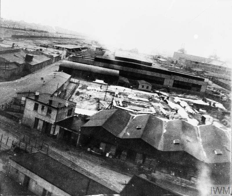 Operation WRECKAGE: low-level daylight attack on targets in Bremen by aircraft of No. 2 Group. Low-level oblique photograph taken from the nose of a Bristol Blenheim Mark IV during this determined daylight raid by nine aircraft drawn from Nos. 105 and 107 Squadrons RAF. Docks, railways and factory buildings were successfully attacked for the loss of 4 Blenheims. Wing Commander H I Edwards, the Commanding Officer of 105 Squadron, was awarded the Victoria Cross for leading the attack.